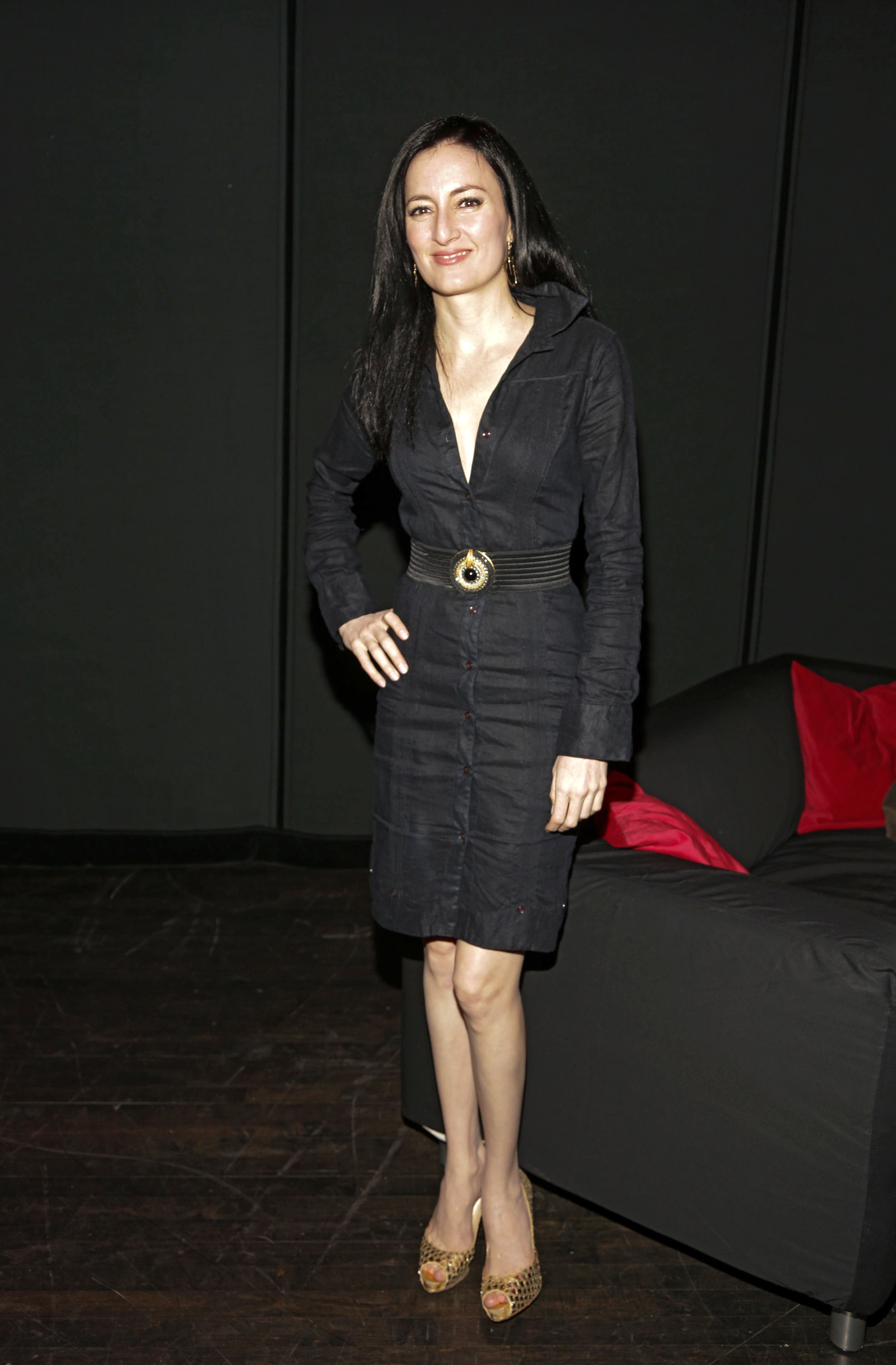 Actress Cucu Diamantes at the 2013 MIFF presentation of Amor Cronico by Jorge Perugorría, at the Olympia Theater at the Gusman Center for the Performing Arts on March 7, 2013